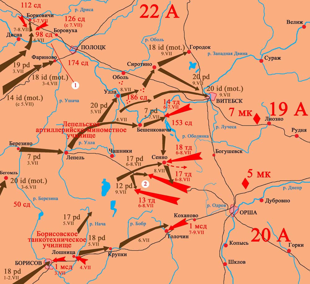 The Battle of Senno, July 1941